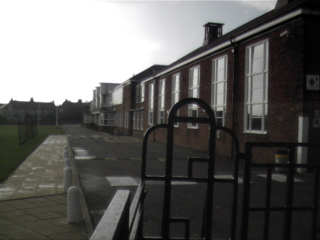 Dame Allan's School. Large private school in the most prosperous corner of Newcastle's West End. See Dame_Allan's_School,_Newcastle